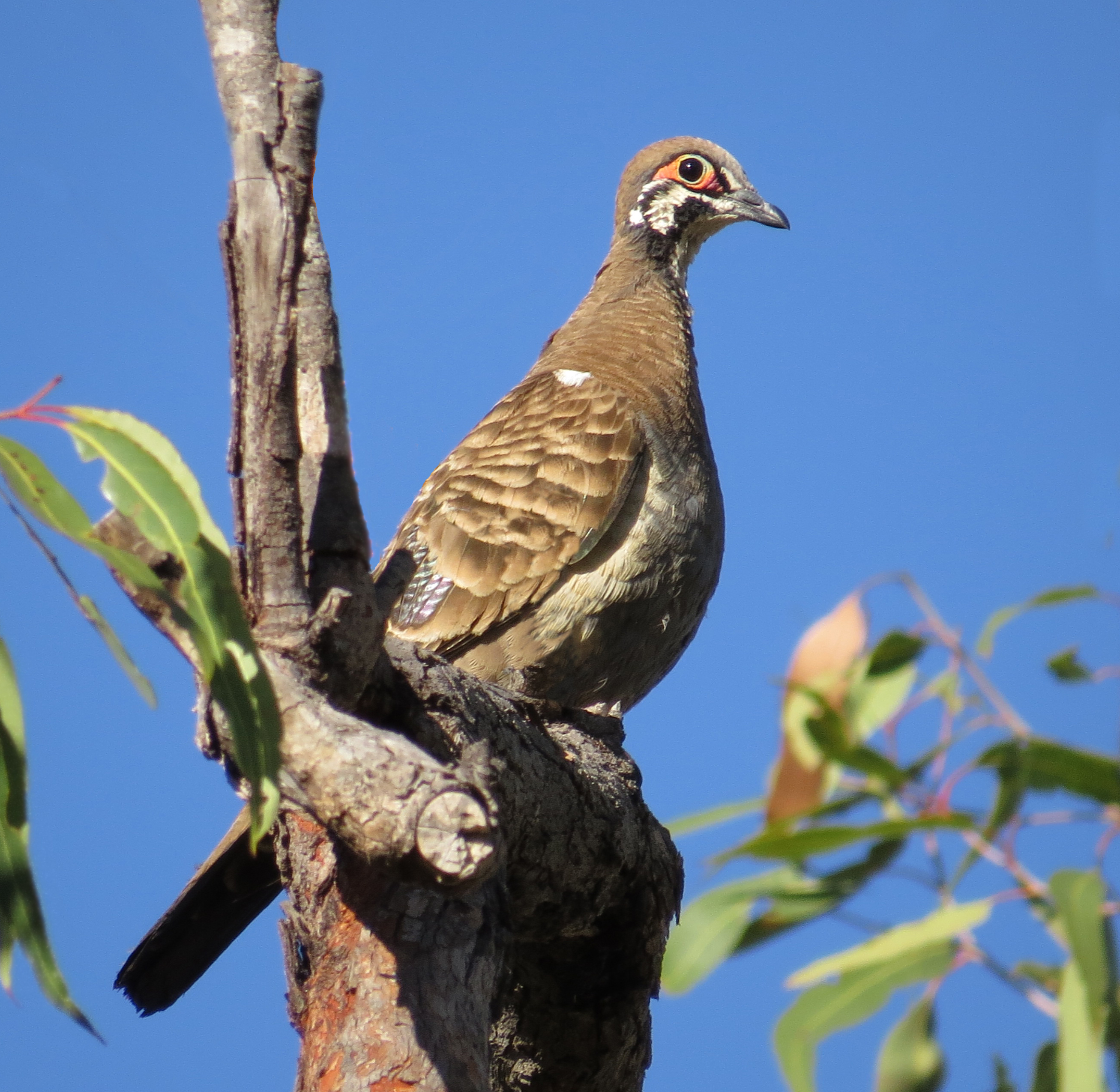 Squatter pigeon (Geophaps scripta) northern variation peninsulae differs from southern form by bare pink skin around the eye. Taken at Emu Creek, Atherton Tableland, north Queensland, Australia